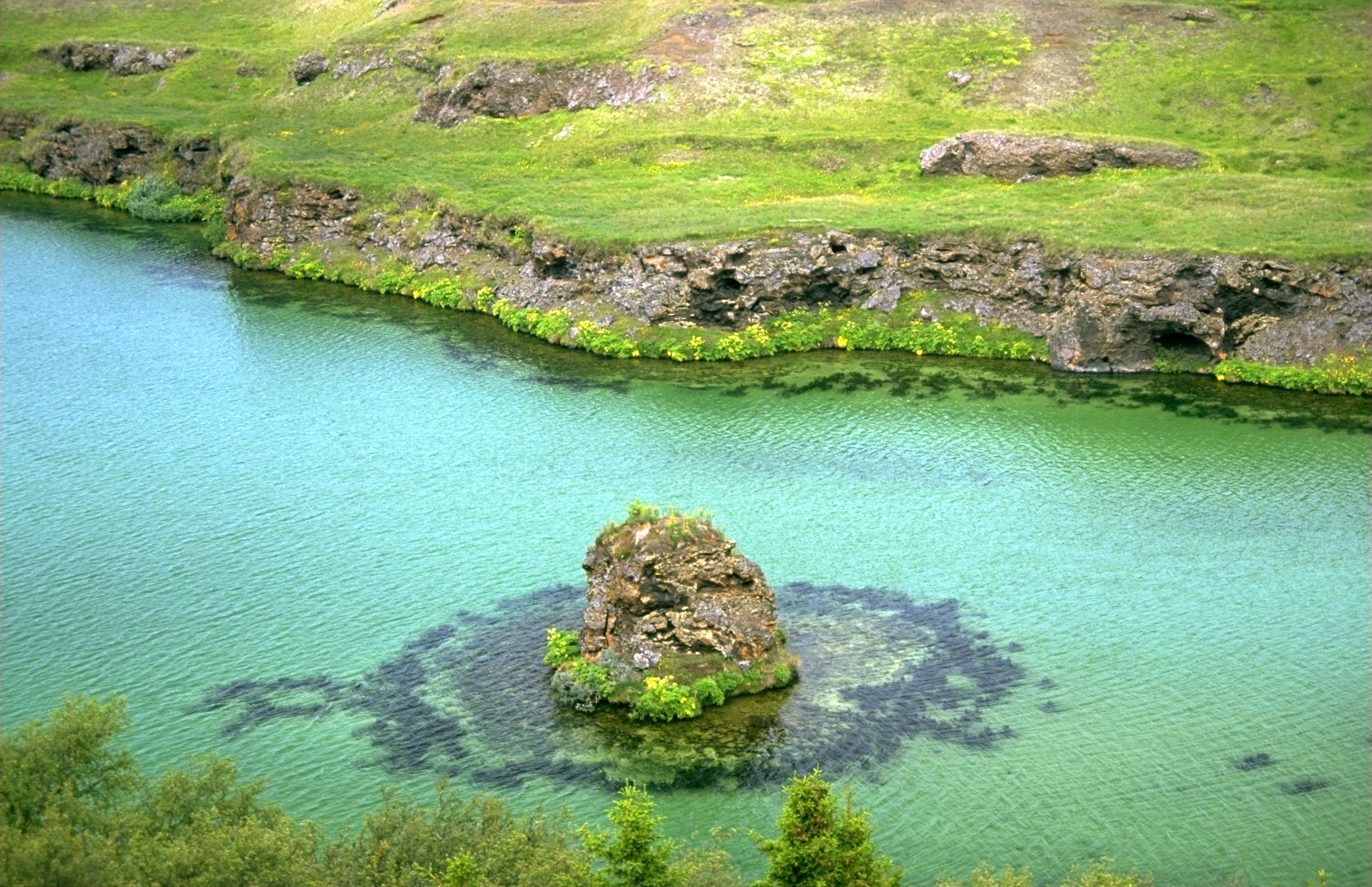 Lava island in lake Mývatn, Iceland Photo was taken using the following technique: Film: Fuji Velvia Lens: 4/70-210 Filter: Body: Minolta 7 Support: Manfrotto 190B Image with Information in English Bild mit Informationen auf Deutsch